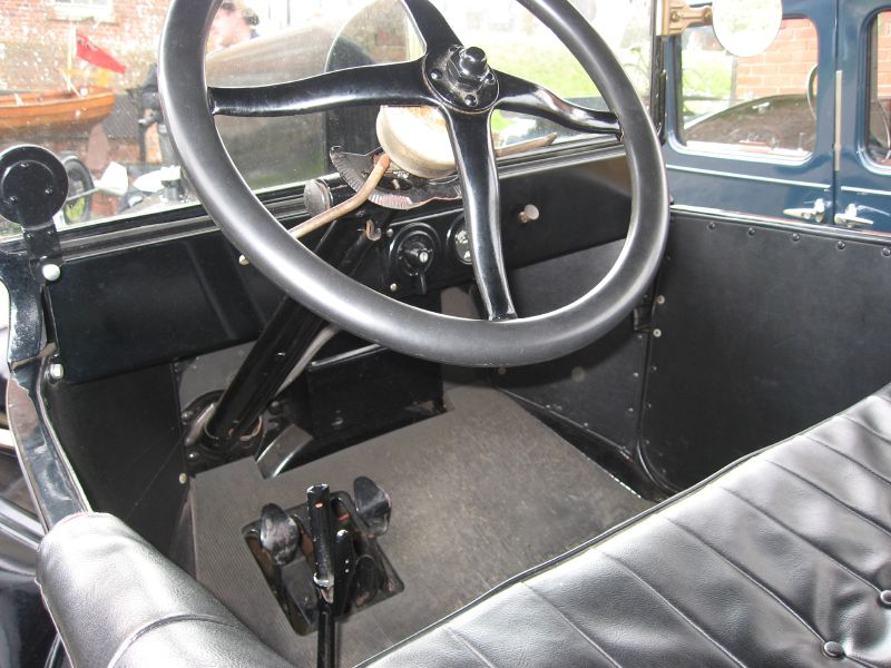 Ford Model T 1920 Steam Gala, Croston Pumping Station, 30 September 2007